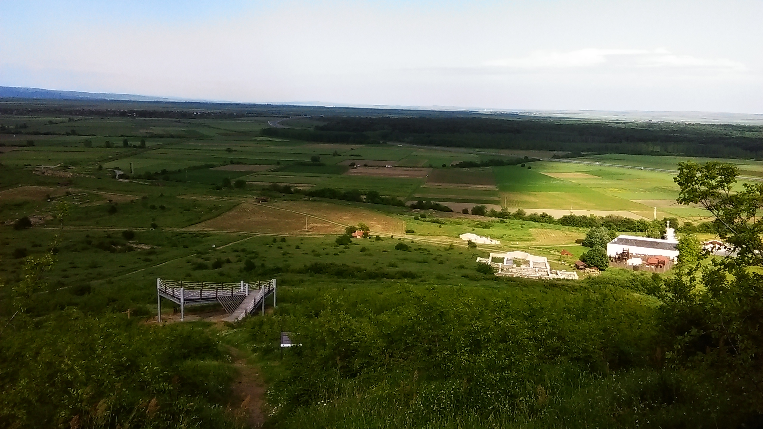 A view towards archaelogical reserve from Kibella sanctuary